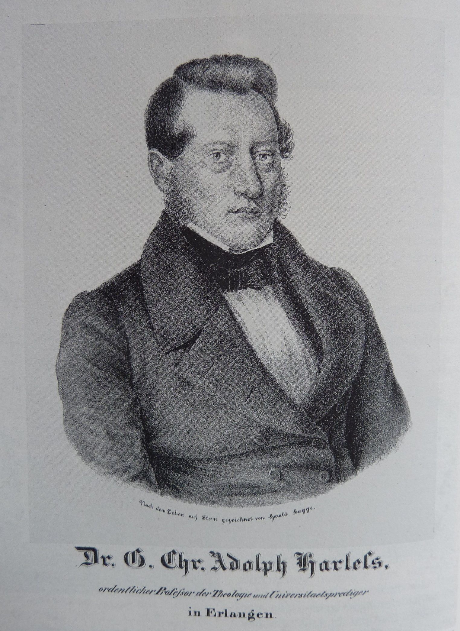 Adolf von Harleß, German protestand theologian, drawn from real life onto stone by Harald Bagge, orig. Lithography, Nuremberg about 1840